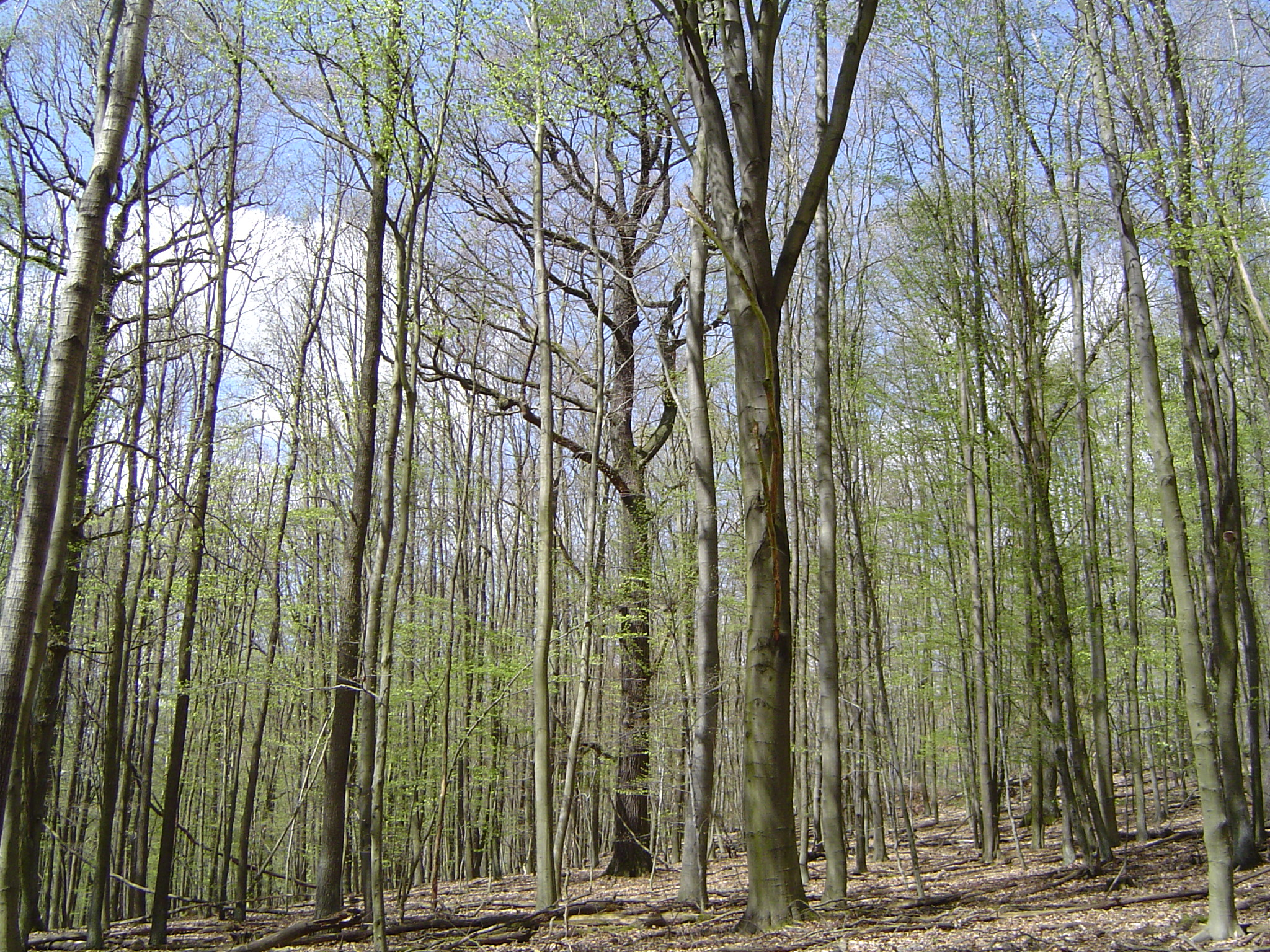 Mixed forest in Northeastern Germany with multiple deciduous tree species and a diverse age structure